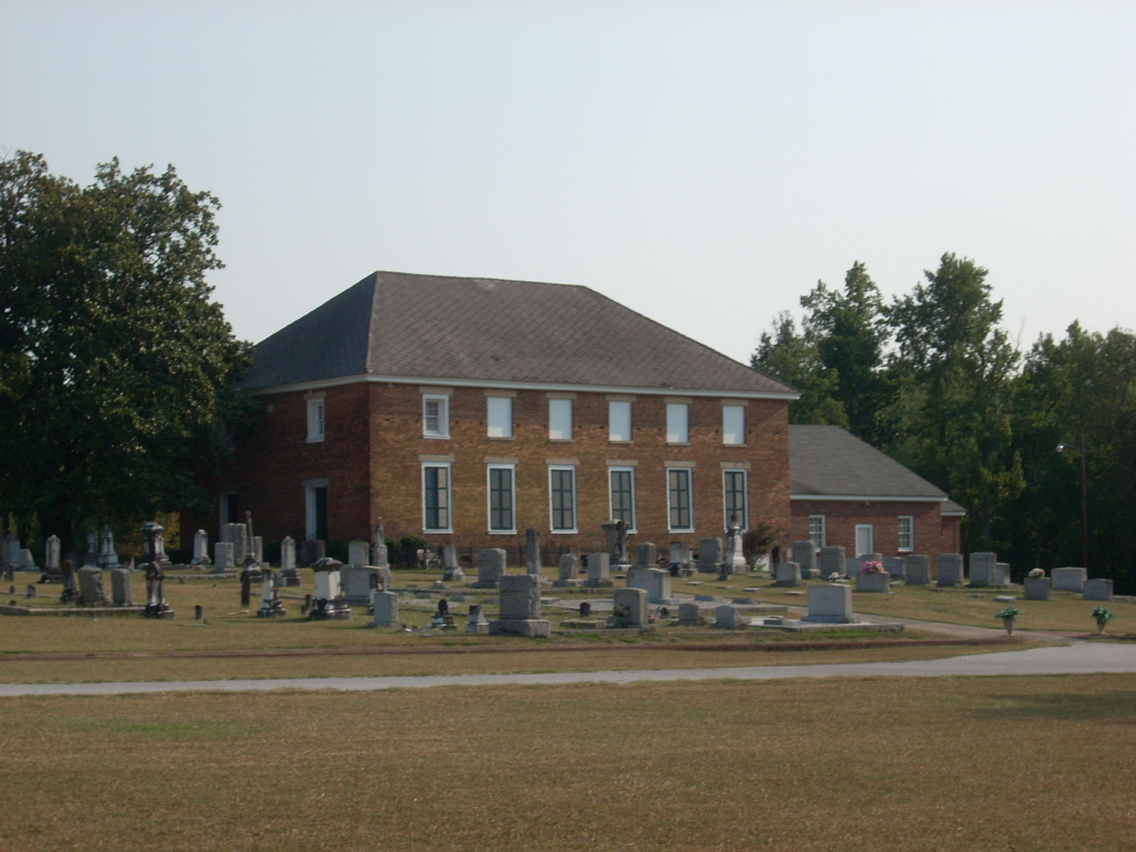 Cedar Springs ARP Church (Abbeville County, South Carolina)